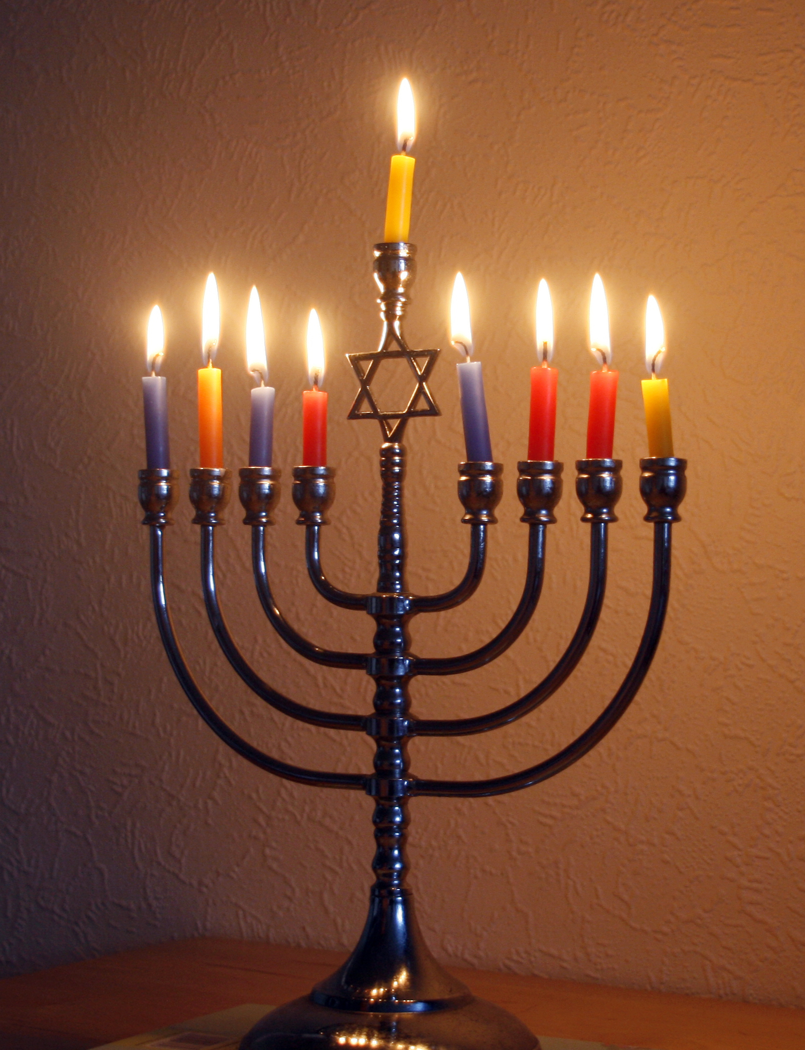 A contemporary Candelabrum (Menorah, Hebrew: מנורה) in the style of a traditional Menorah. Seen here with eight candles lit (the ninth candle is the service, Shamash, Hebrew: שמש), used during the Jewish Hanukkah holiday, 2014, United Kingdom. Photo by Gil Dekel.